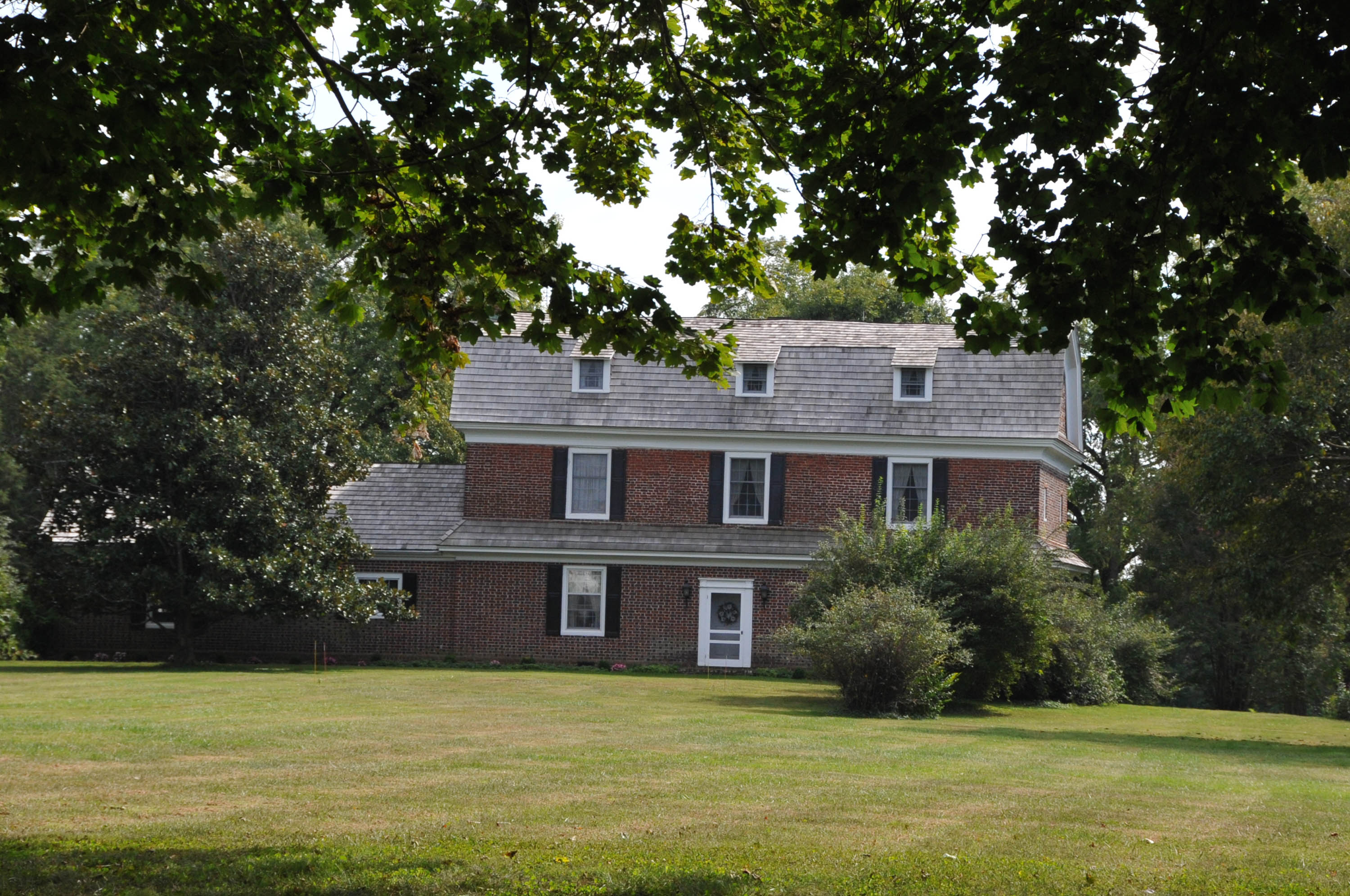 BENJAMIN RUMSEY MANSION IS THE ONLY BUILDING SURVIVING FROM OLD JOPPA TOWN. ERECTED IN 1720-1724. JOPPA TOWN WAS THE FIRST TOWN BUILT NORTH OF BALTIMORE AND A THRIVING PORT UNTIL THE GUNPOWDER RIVER SILTED UP